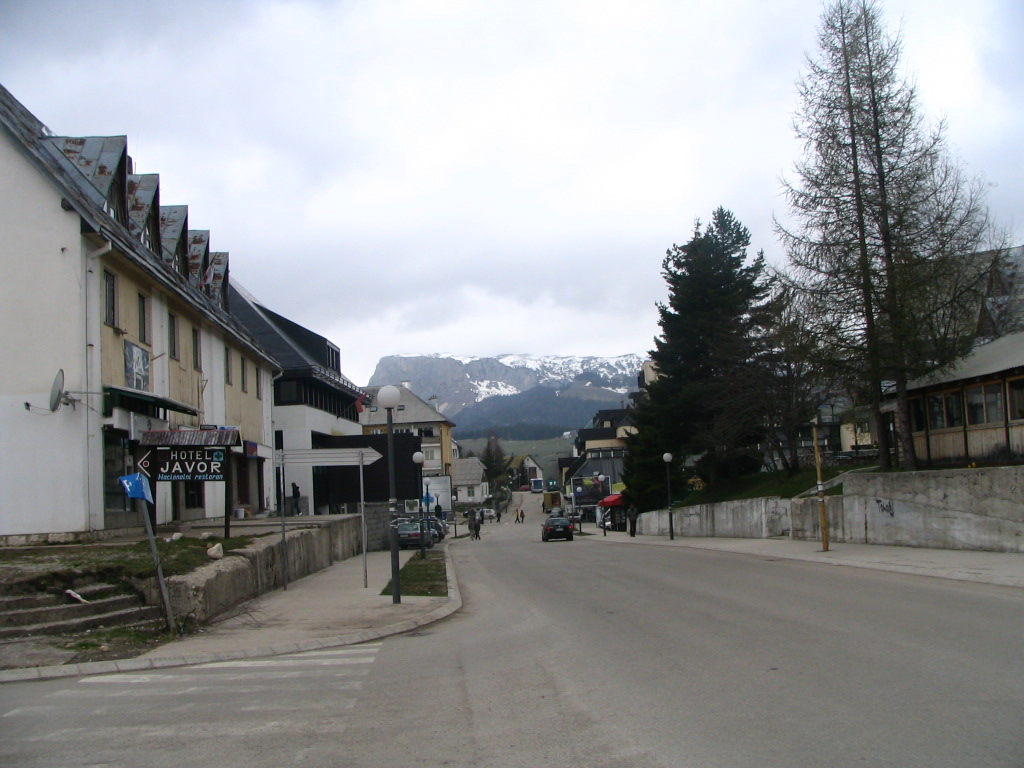 City of Zabljak